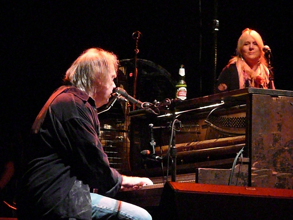 Neil and Pegi Young at the Trent FM Arena in Nottingham.